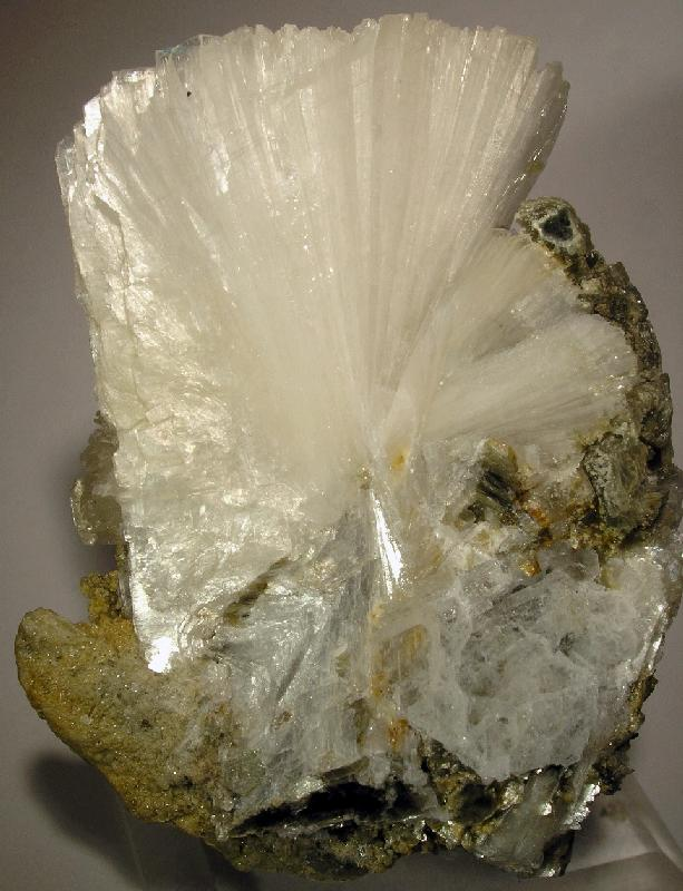 Bertrandite Locality: Golconda pegmatite, Governador Valadares, Doce valley, Minas Gerais, Southeast Region, Brazil (Locality at ) This specimen hails from a onetime find, probably 25 years ago, and was brought out by Carlos Barbosa (from whom this specimen came). This is supposed to have been his best keeper, and stands on its own merit regardless as a superbly formed miniature with extremely large crystals for the species balanced on a bit of matrix . Irreplaceable! 5.3 x 4.1 x 2.7 cm